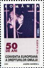 Ilie Ilaşcu. 50 years of European Convention on Human Rights, Romanian stamp